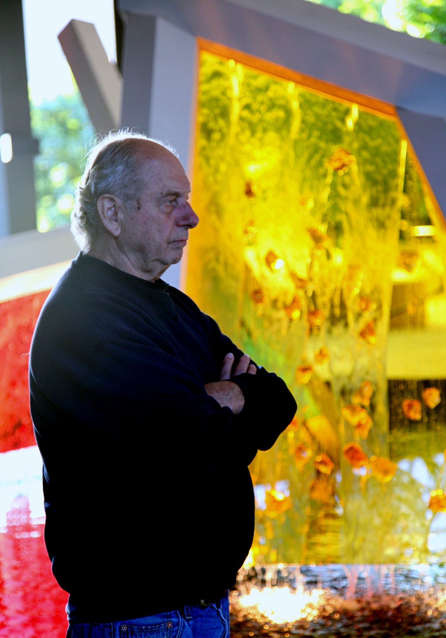 Photo of California Ceramicist and Sculptor Stan Bitters